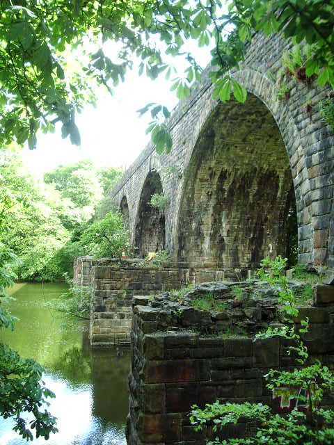 Viaduct On the old railway between Tottington and Greenmount Stations